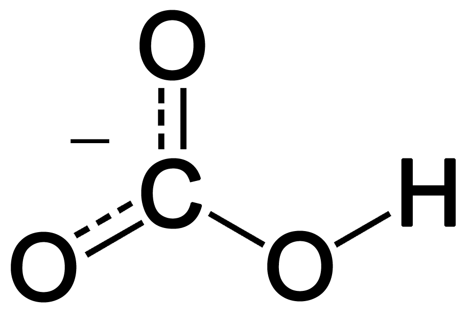 Bicarbonate ion. Hydrogen-oxygen-carbon bonds shown as single. Bonds to remaining oxygens shown as 1.5 with a floating negative charge, reflecting resonance structures of the bicarbonate ion.